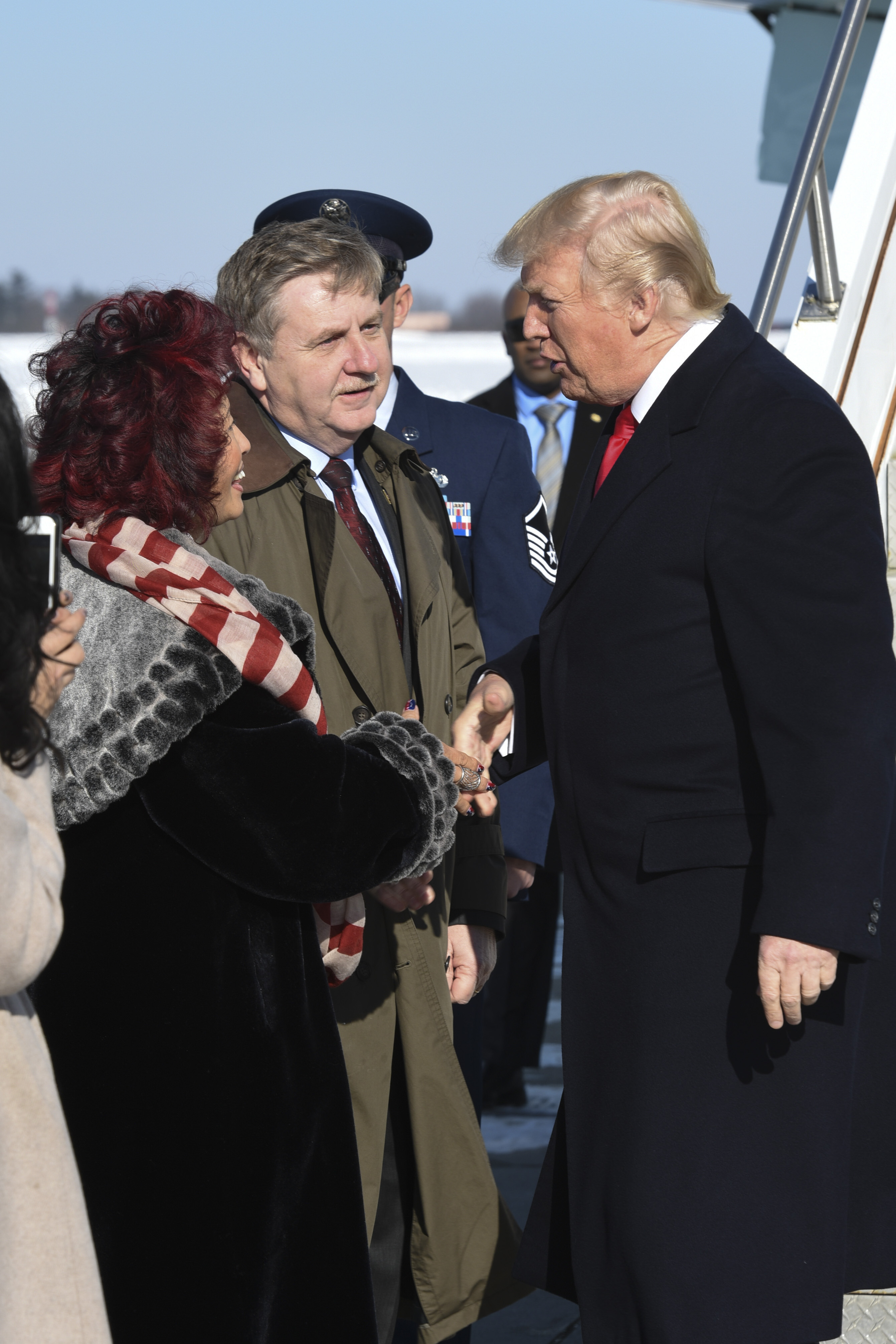 President of the United States Donald J. Trump is greeted by Rick Saccone, Republican nominee for the 18th congressional district and his wife Yong Saccone at the Pennsylvania Air National Guard’s 171st Air Refueling Wing in Coraopolis, Pa. Jan. 18, 2018. (U.S. Air National Guard Photo by Senior Airman Kyle Brooks)